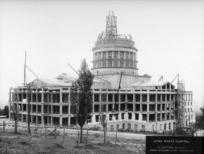 The Utah State Capitol, under-construction, as seen on May 16, 1914.